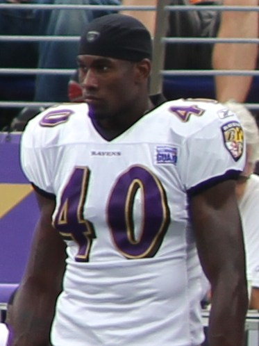 M&T Bank Stadium August 2011